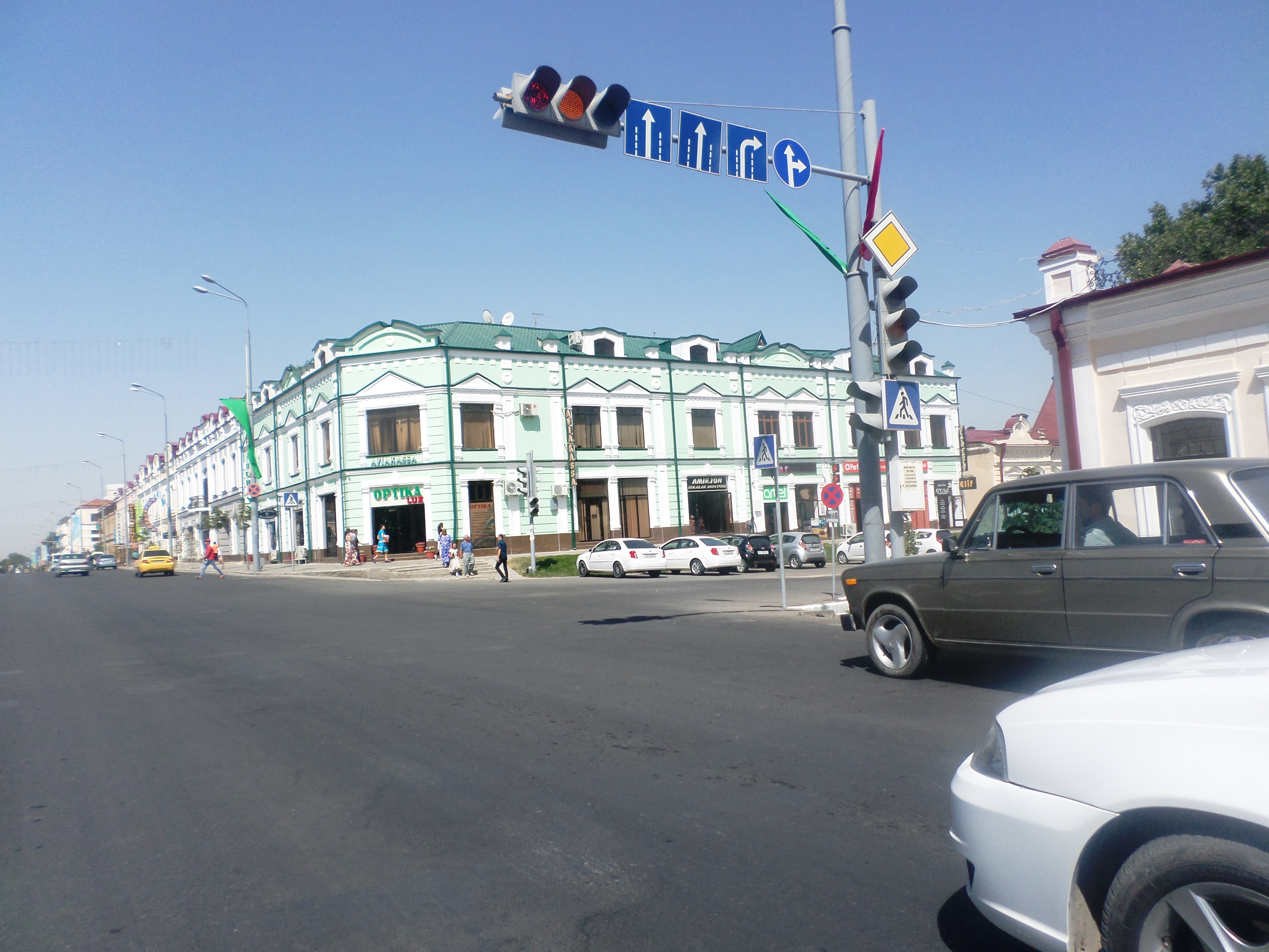 Avenues of modern Samarkand